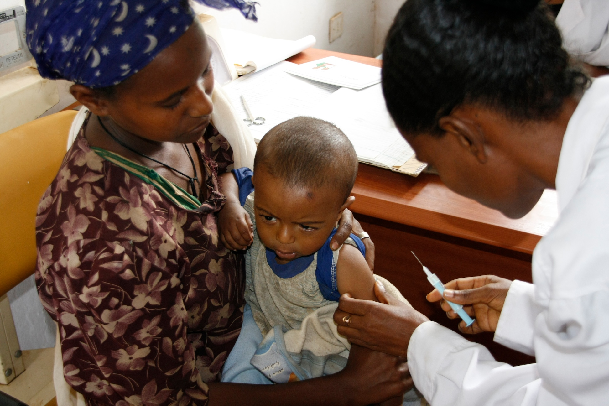 Nine month old Emabet is about to receive her measles vaccination, in Ethiopia's Merawi province. One in ten children across Ethiopia do not live to see their fifth birthday, with many dying of preventable diseases, like measles, pneumonia, malaria and diarrhoea. But British aid has helped to double immunisation rates across Ethiopia in the past five years, by funding medicines, equipment and training for doctors and nurses. Additional funding from the UK and other countries will help GAVI roll out new, life-saving vaccines in other countries around the world. To find out more, please see the full story at: Picture: Pete Lewis / DFID Terms of use This image is posted under a Creative Commons - Attribution Licence , in accordance with the Open Government Licence . You are free to embed, download or otherwise re-use it, as long as you credit the source as 'Pete Lewis / Department for International Development'.